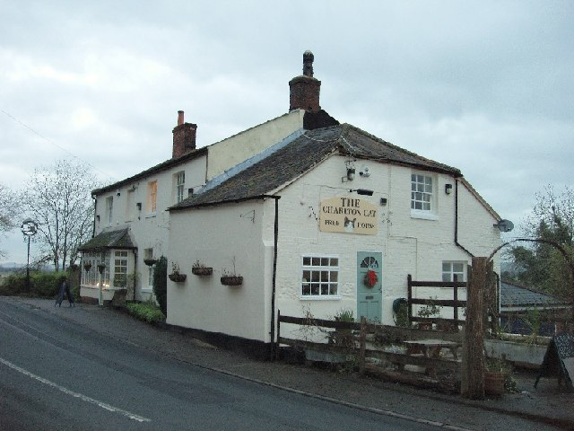 The Charlton Cat.